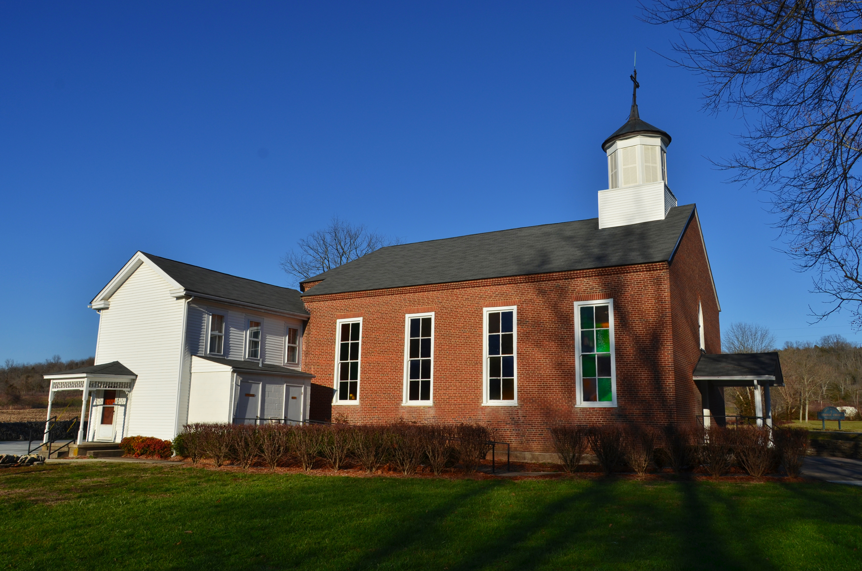 Holy Rosary Church location in Manton, Kentucky.